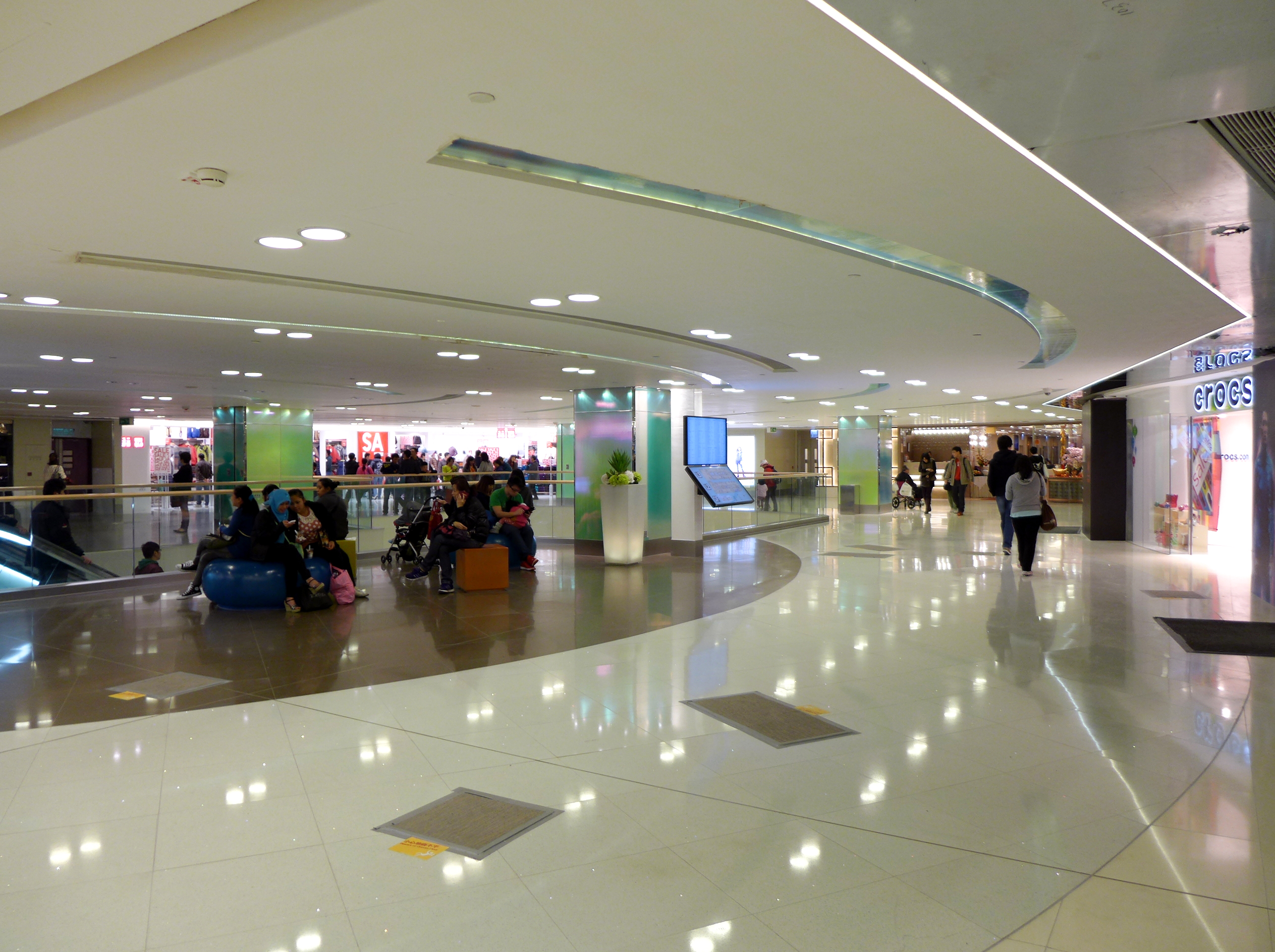 Sunshine City Plaza Level 3 after renovation